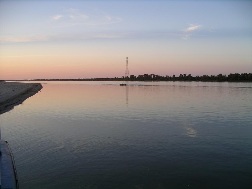 Ob river Russia August 2004